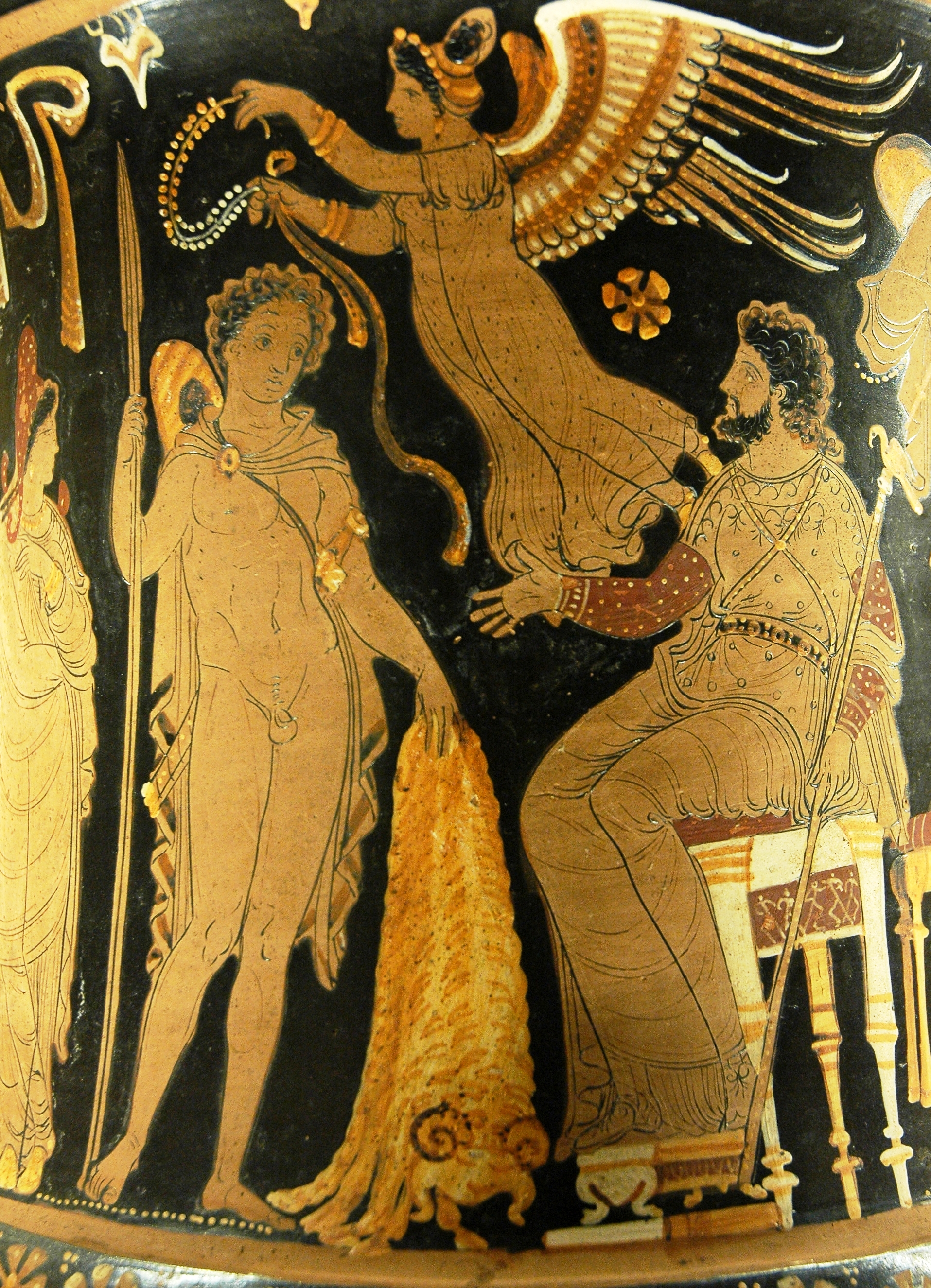 Jason bringing Pelias the Golden Fleece; a winged victory prepares to crown him with a wreath. Side A from an Apulian red-figure calyx crater.